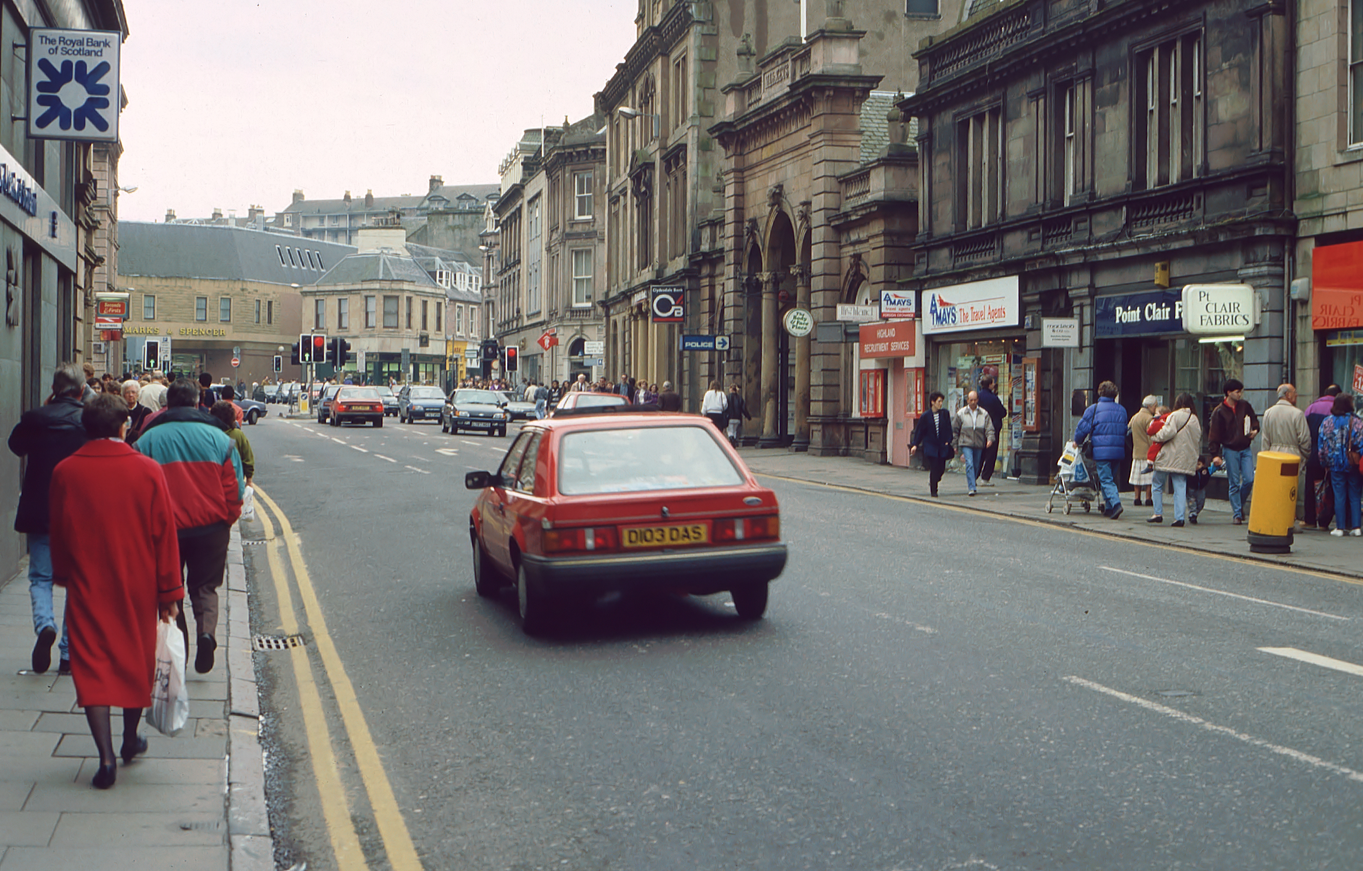 Inverness - Academy Street, Inverness/Scotland